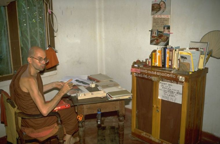 Bhikku Nyanasanta Island Hermitage, Sri Lanka